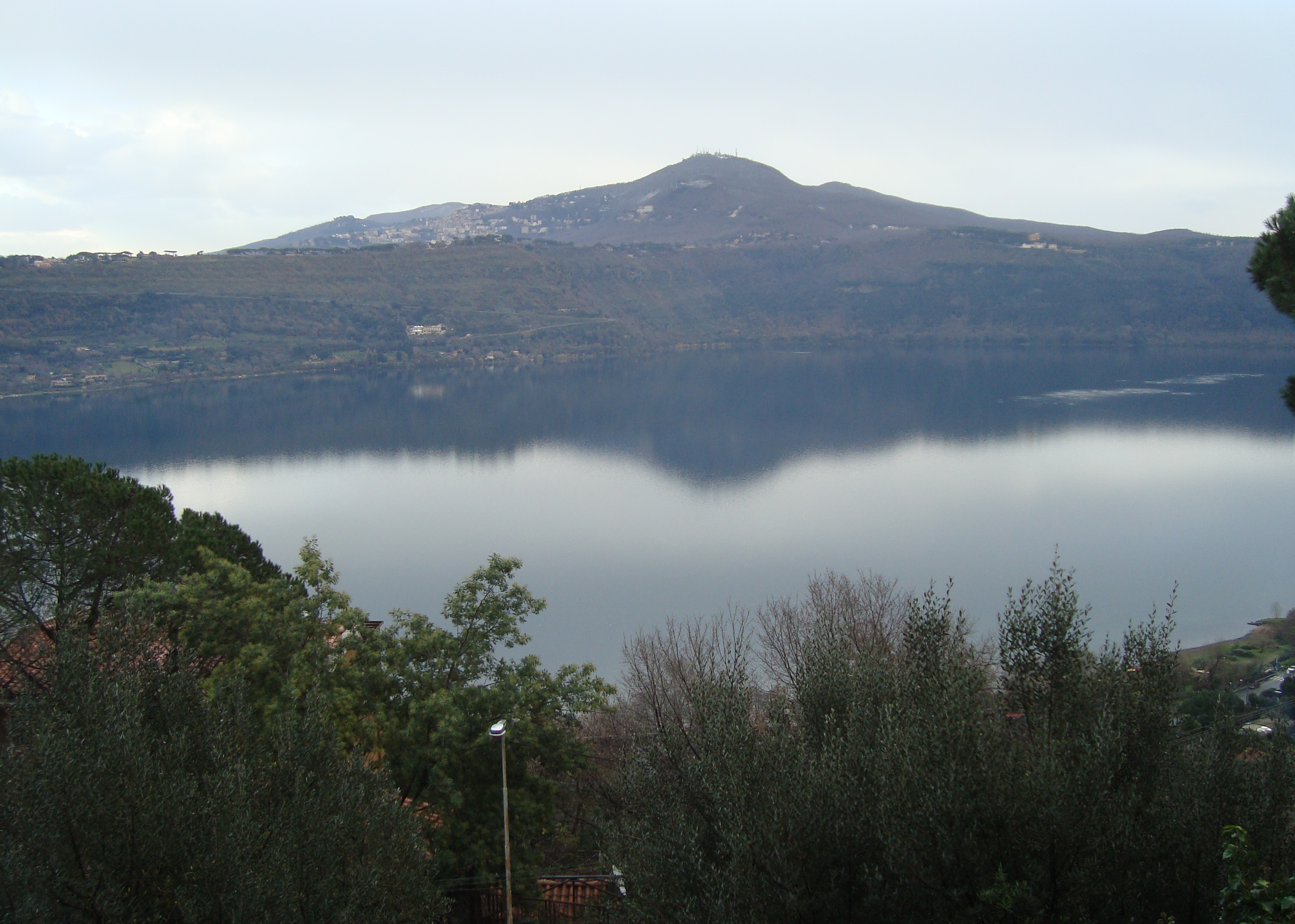 The Monte Cavo or Monte Albano near Frascati and the Lake Albano